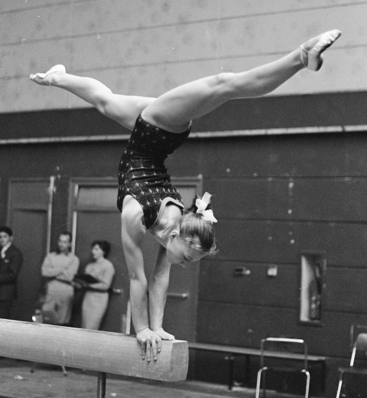 Natalia Kuchinskaya, World Championships